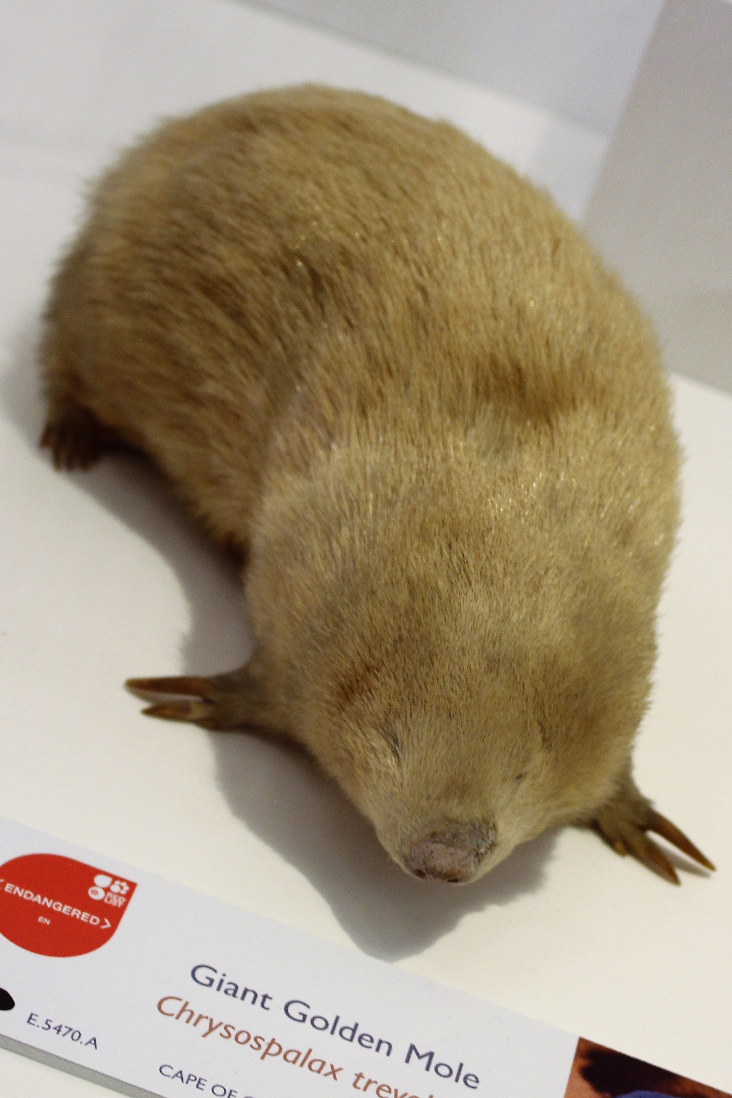 Taxidermied giant golden mole (Chrysospalax trevelyani) at the Cambridge University Museum of Zoology, England.